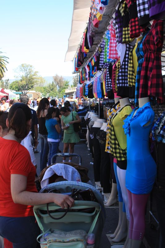 San Jose Berryessa Flea Market (La Pulga) San Jose, CA